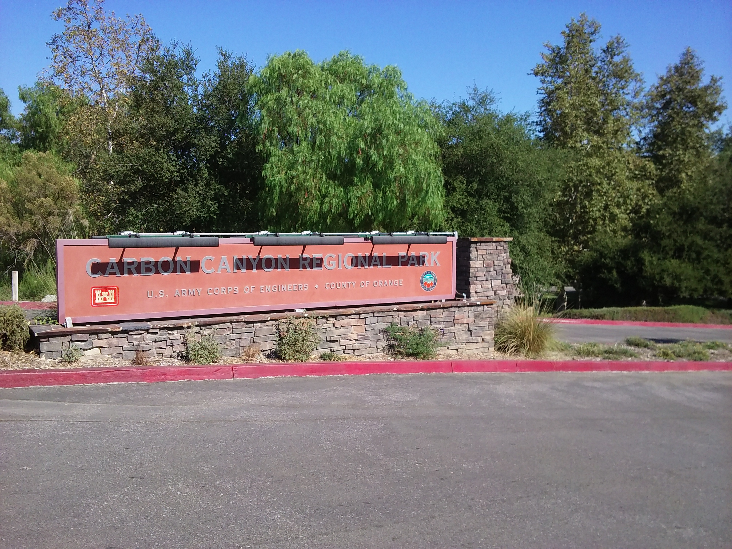 A picture of the front sign of Carbon Canyon Regional Park during the summer